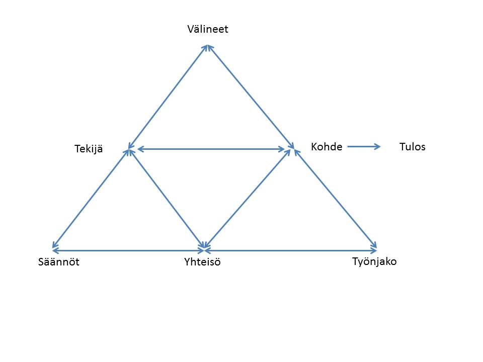 Structure of activity system (diagram with texts in Finnish),based on Engeström, Yrjö: Learning by expanding - an activity-theoretical approach to developmental research, Published by Orienta-konsultit, Helsinki 1987, page 78